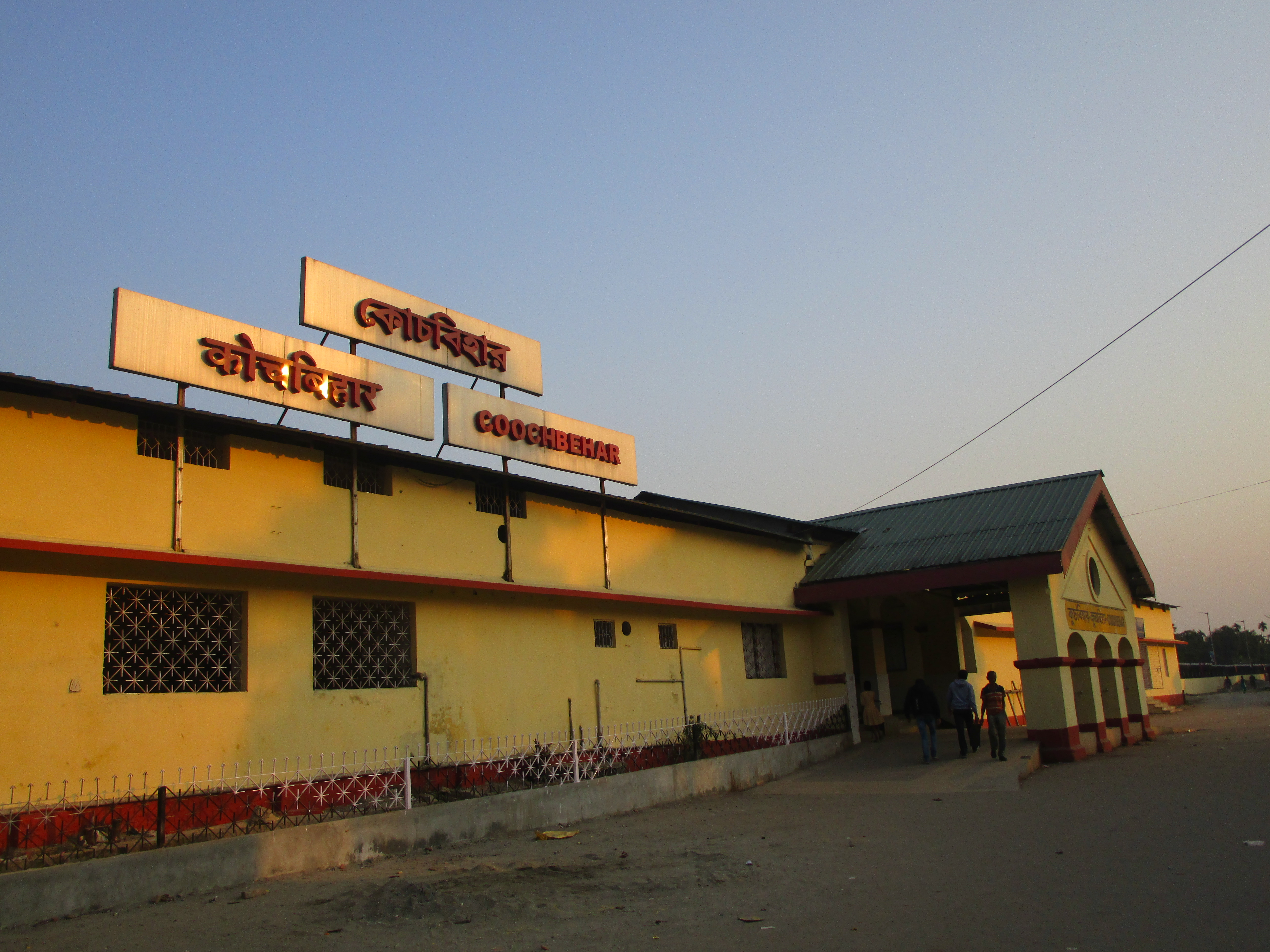 Coochbehar Railway Station.